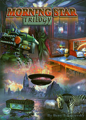 Poster by Beny Tchaicovsky. Poster created to promote the release of a series of three 3D computer animation feature lengths DVDs titled Morning Star Trilogy by Beny Tchaicovsky